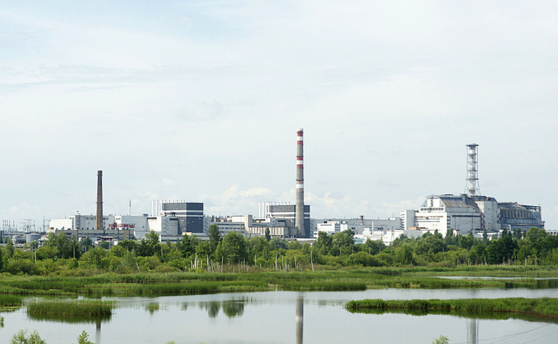 Chernobyl NPP